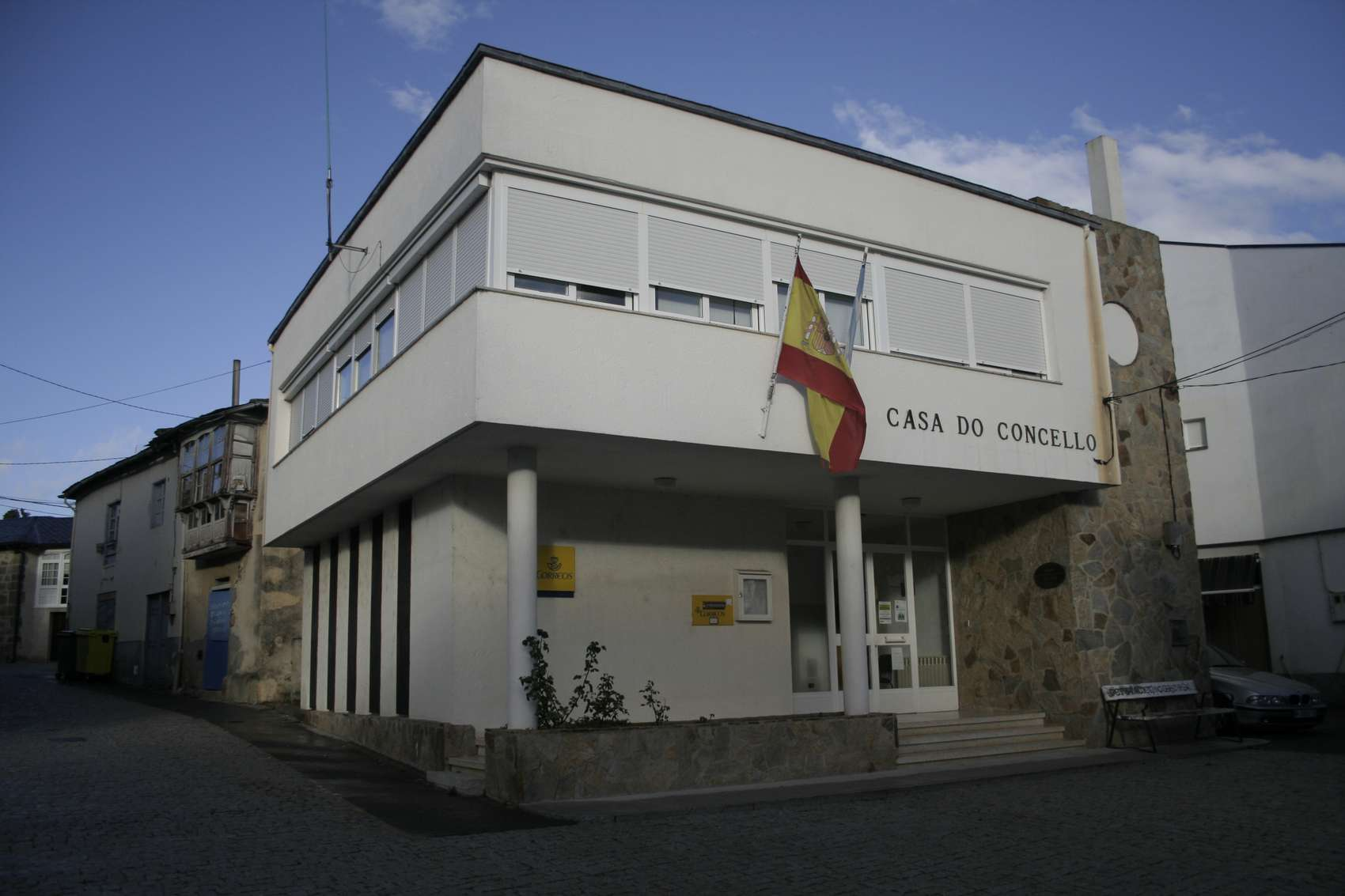 Town Hall in Larouco (Spain)